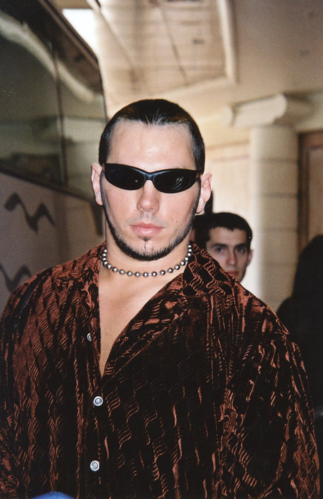 Matt Hardy in 1999